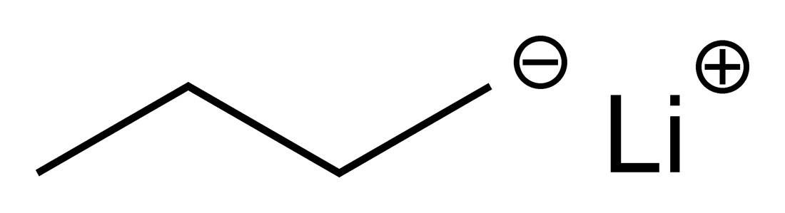 N-butyllithium-ionic-skeletal